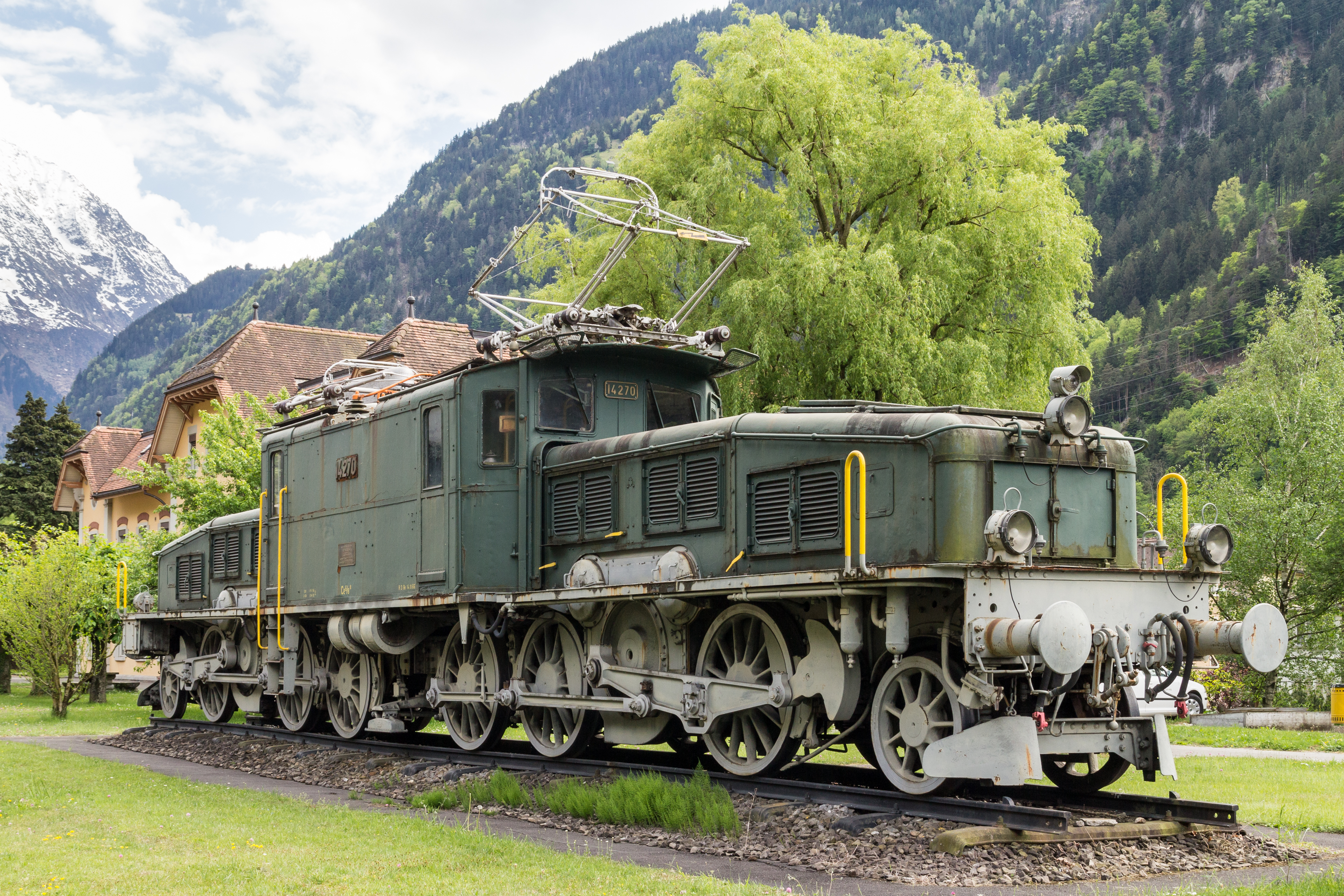 Technical monument: SBB Ce 6/8 II N° 14270 "Crocodile" in Erstfeld UR, Switzerland.